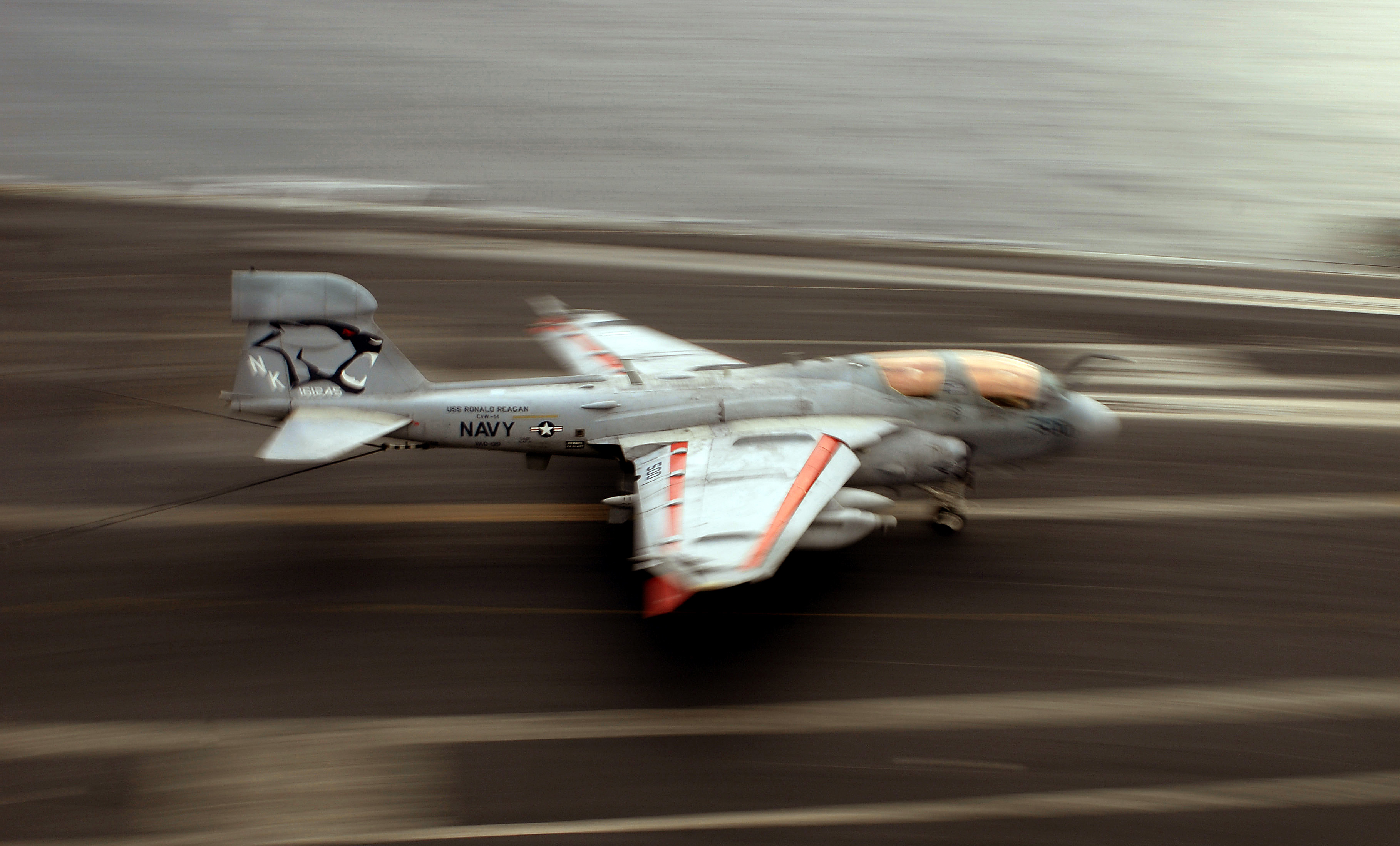 An EA-6B Prowler assigned to the "Cougars" of Tactical Electronic Warfare Squadron 139 makes an arrested landing on the flight deck of the Nimitz-class aircraft carrier USS Ronald Reagan. The Ronald Reagan Carrier Strike Group is conducting composite training unit exercise to prepare for a deployment.